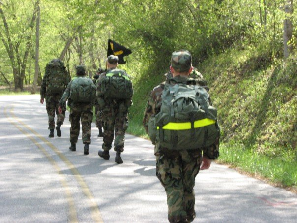 GEB Ruck march